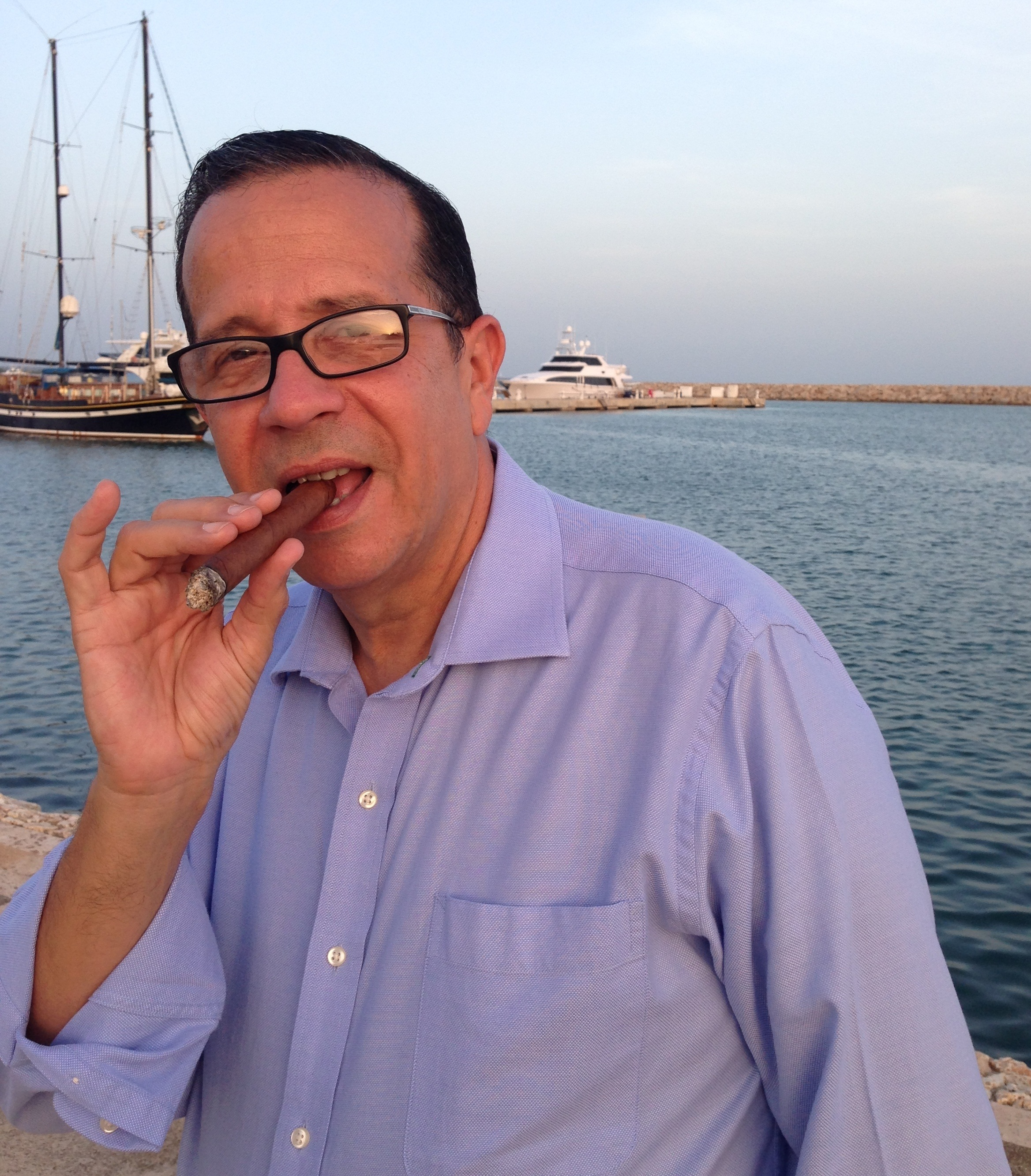 Jose Blanco